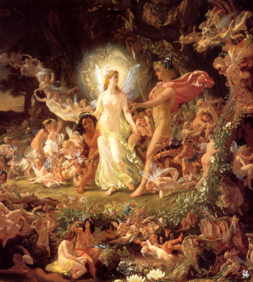 Painted in 1849. This image shows the center detail only. A high resolution scan (around 4,000px wide) is available to the public to look at on a secure terminal next to the gift shop in the gallery.